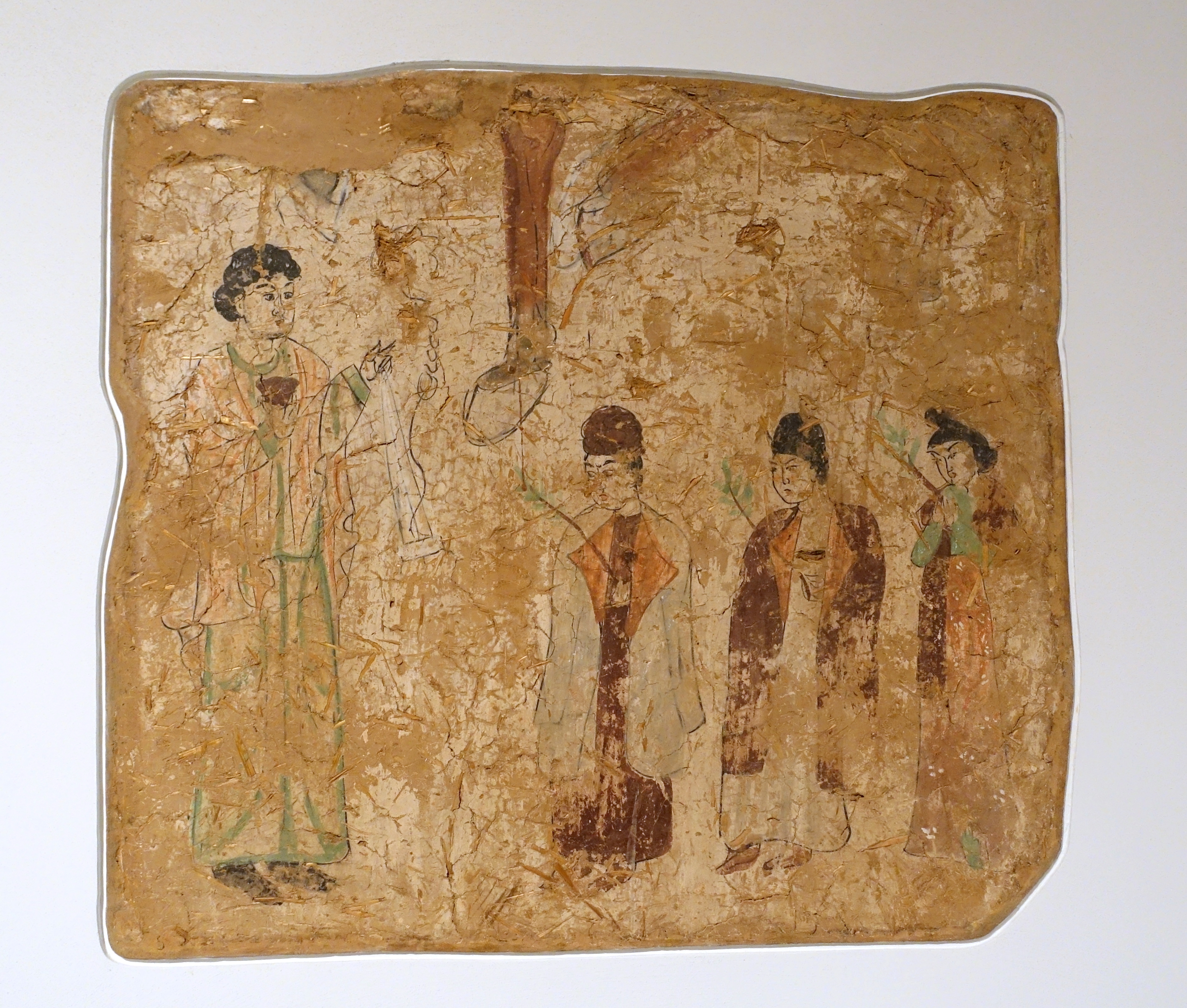 Exhibit in the Ethnological Museum, Berlin, Germany.